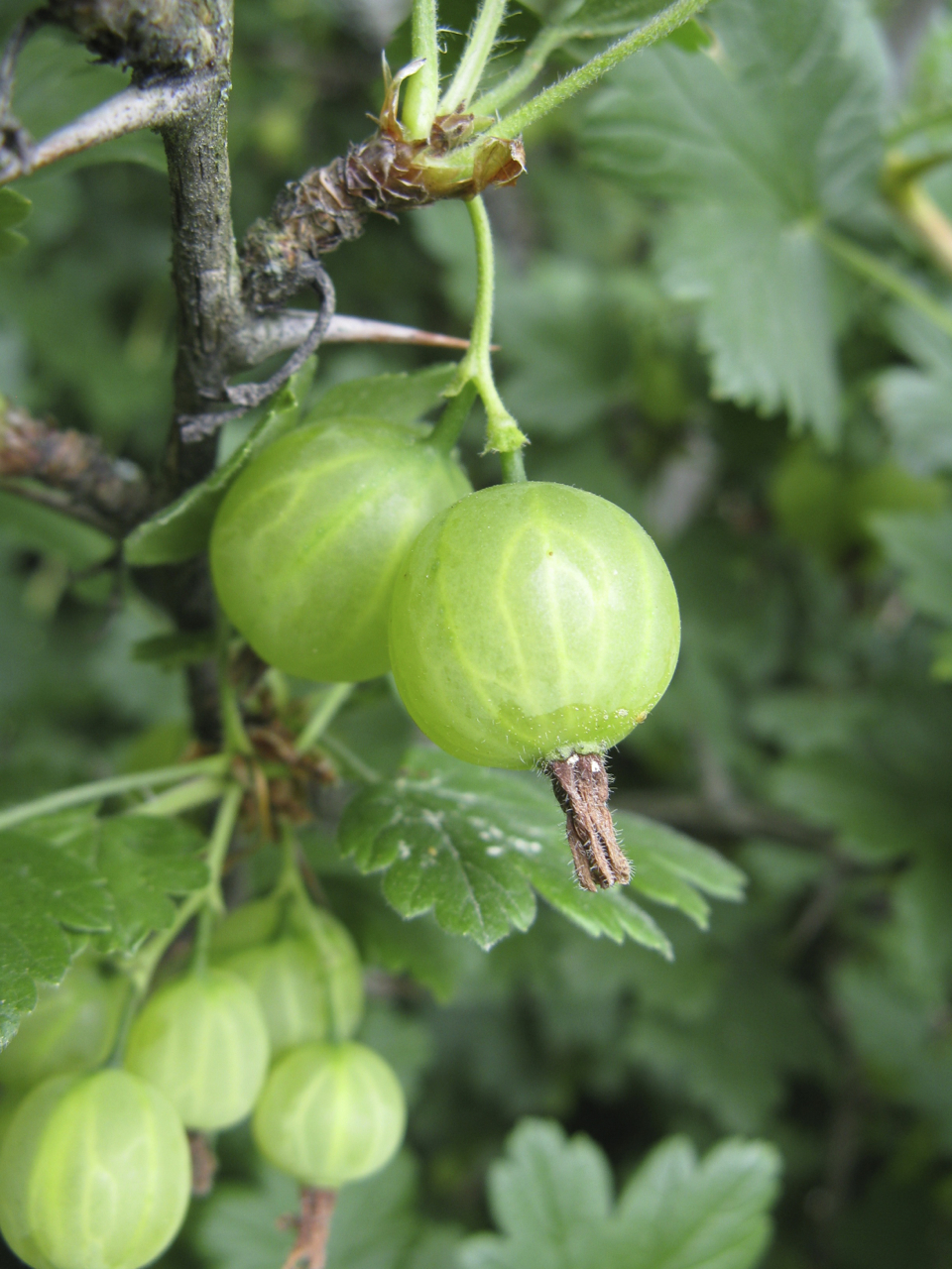 Ribes divaricatum, Worcesterberry, Bergius botanic garden, Stockholm, unripe fruit